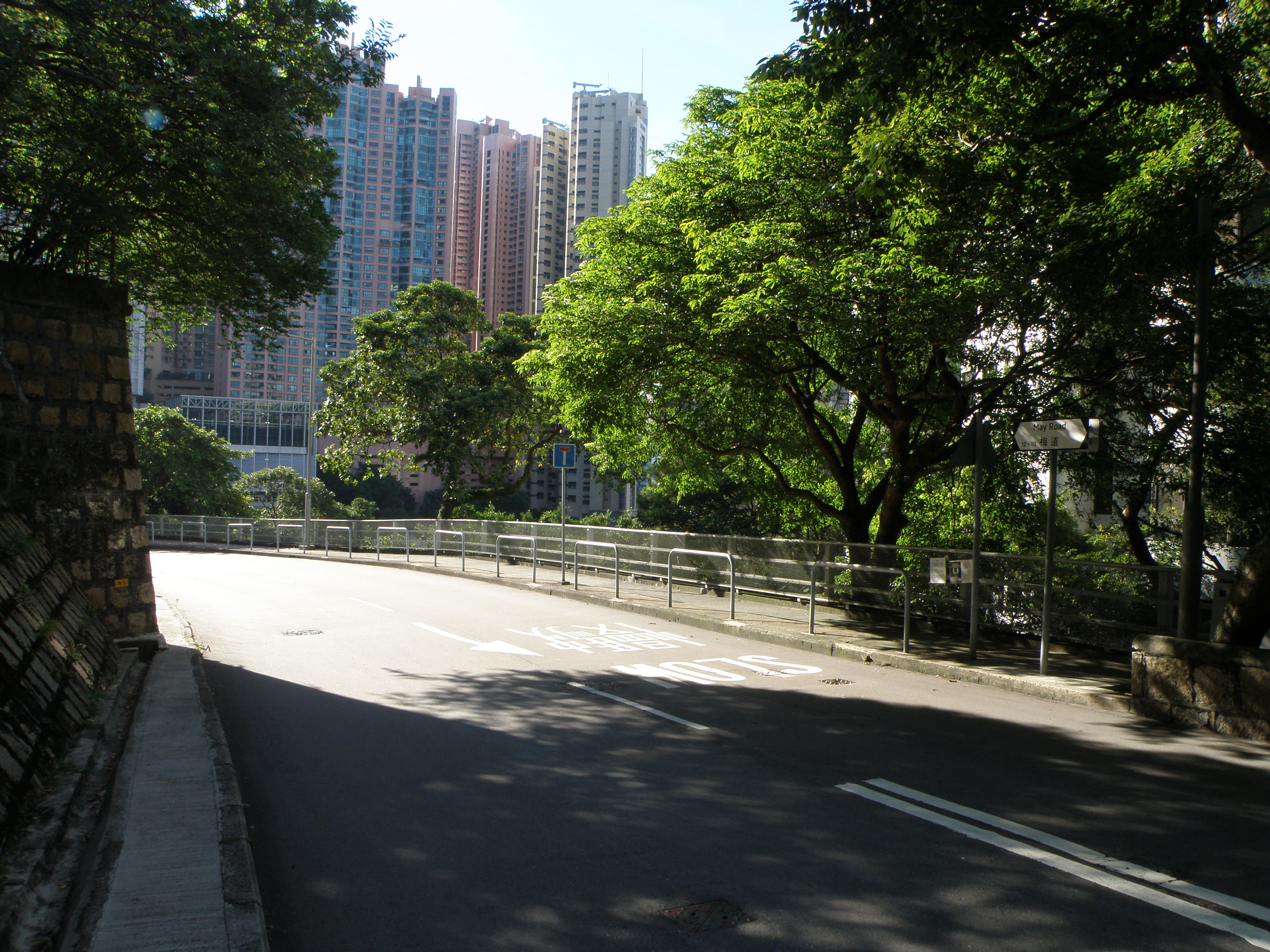 May Road in Mid-levels, Hong Kong.